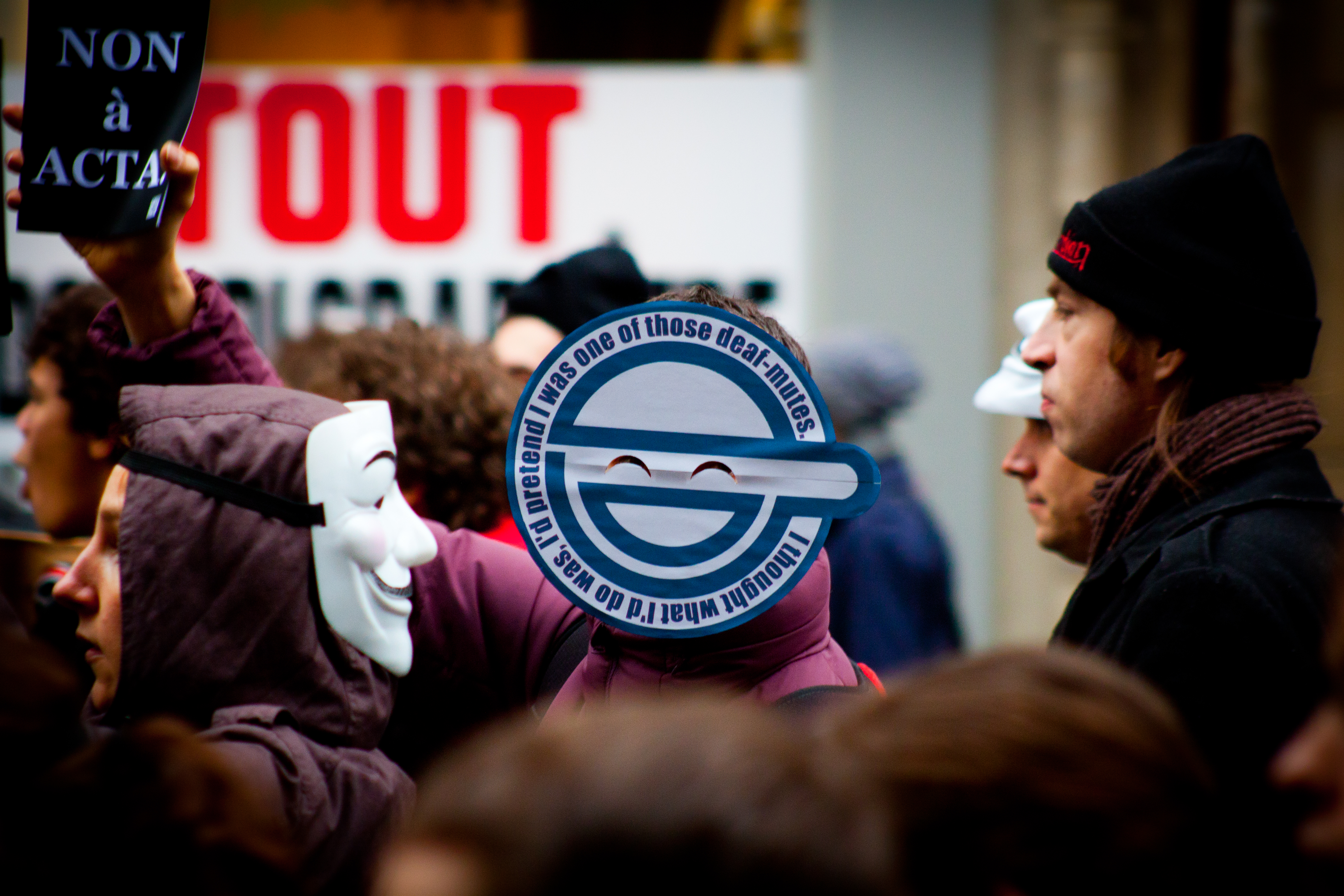 February 25th, 2012 anti ACTA protest in Paris, France.